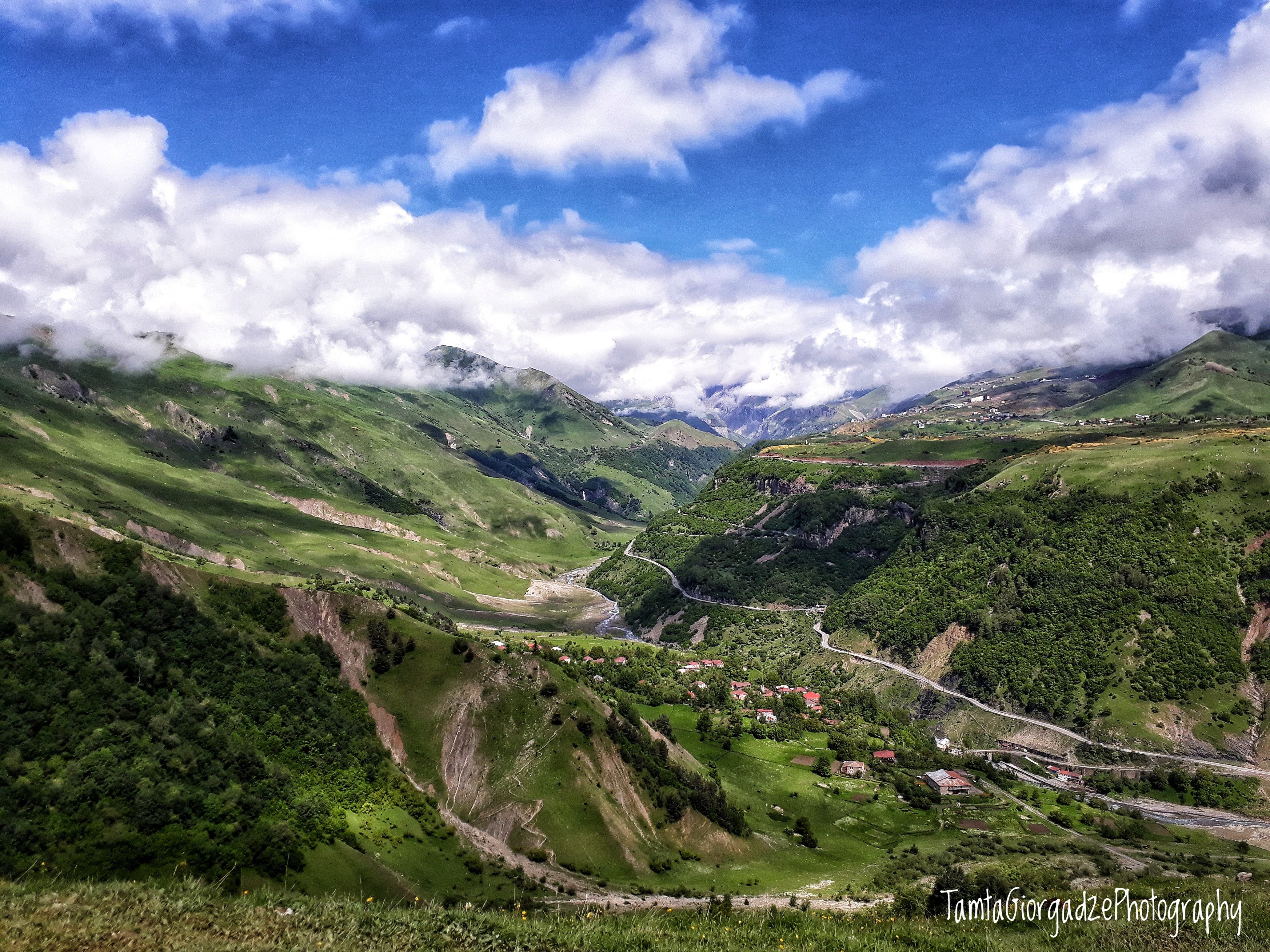 This is view in Georgia_Mtskheta-Mtianeti_mountain Lomisa. თქვენს წინაშეა ხედი ლომისის მთიდან(მცხეთა-მთიანეთი)